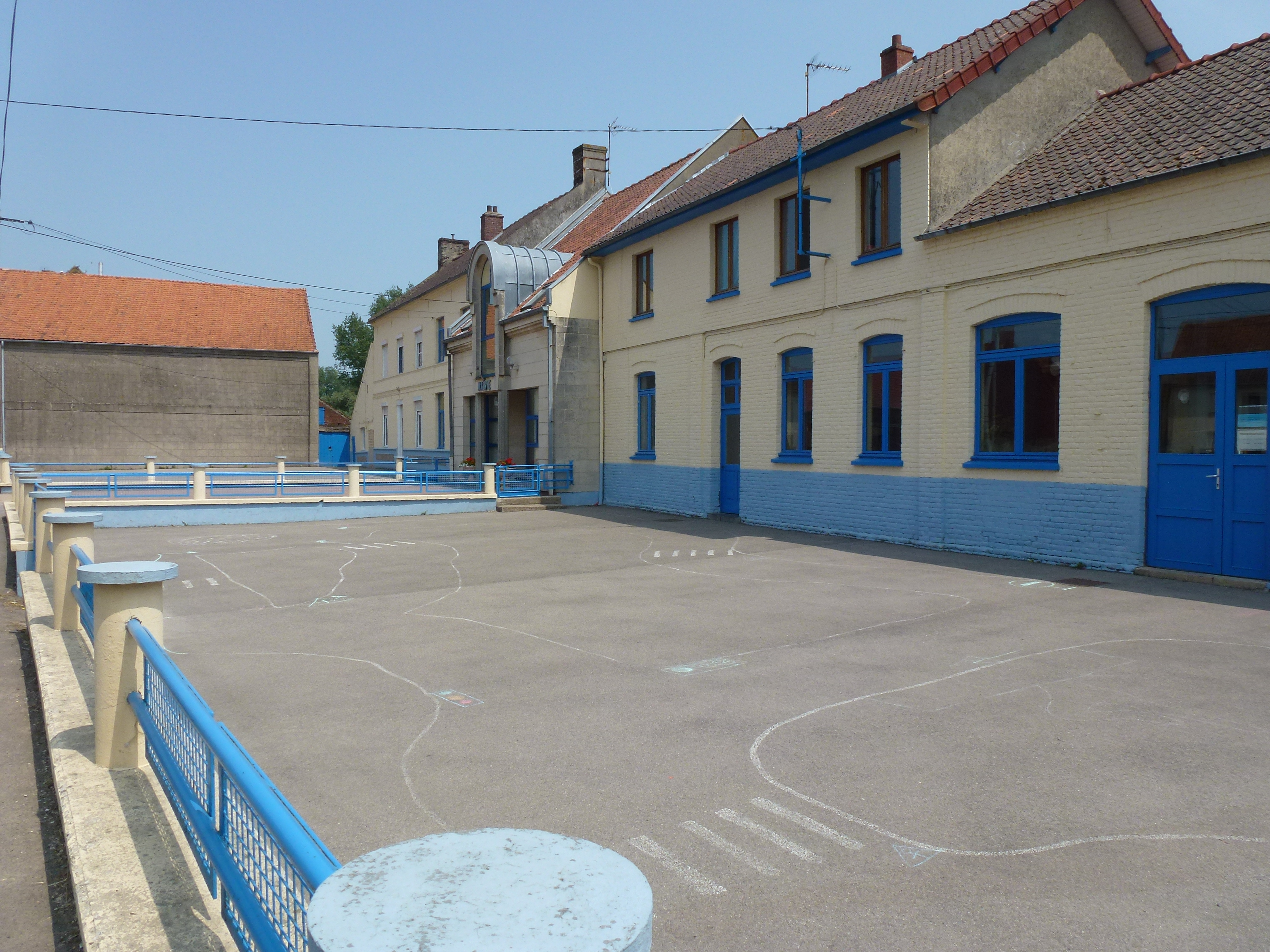 Coyecques (Pas-de-Calais) mairie et écoles